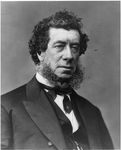 U.S. Library of Congress FISH, HAMILTON. Photograph from Brady negative in Ansco Collection. [No date found on item.] Location: Biographical File Reproduction Number: LC-USZ62-37517 Note: Gift, Ansco, Nov. 7, 1961. Category:United States history images